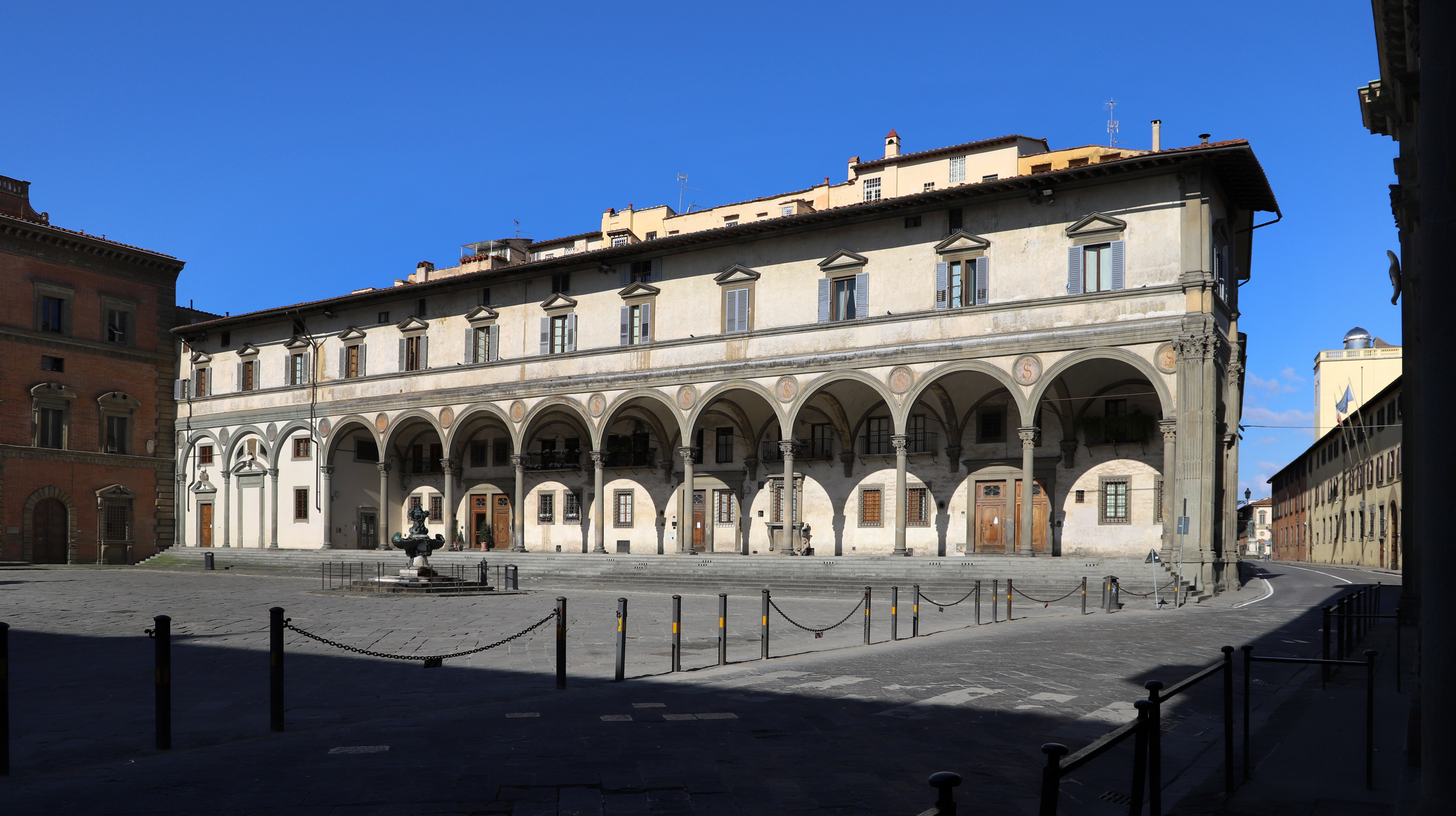 Florence architecture